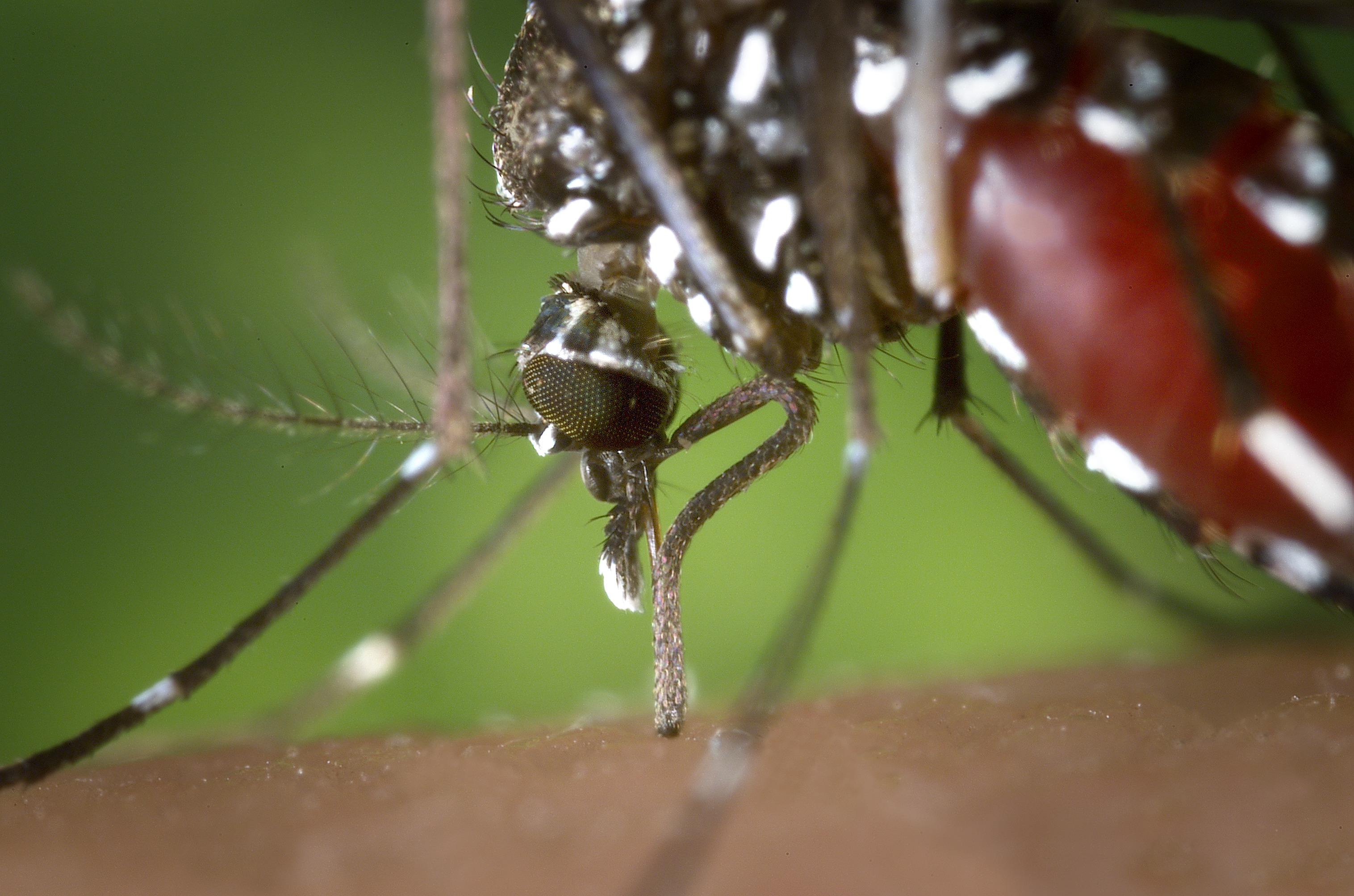 The proboscis of an Aedes albopictus mosquito feeding on human blood. Under experimental conditions the Aedes albopictus mosquito, also known as the Asian Tiger Mosquito, has been found to be a vector of West Nile Virus. Aedes is a genus of the Culicine family of mosquitos.